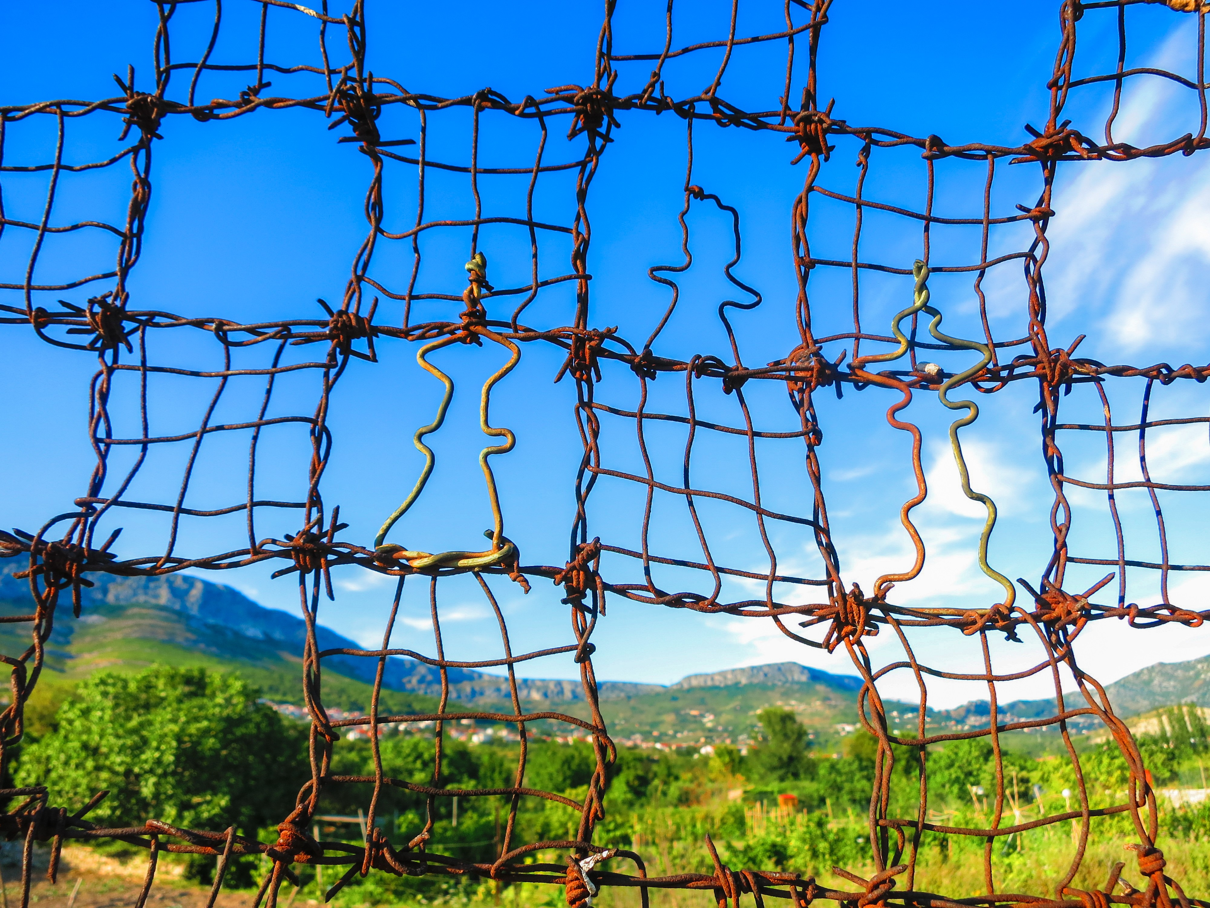 Barbed wire fence between gardens and walking trail in Solin (Split-Dalmatia County, Croatia)